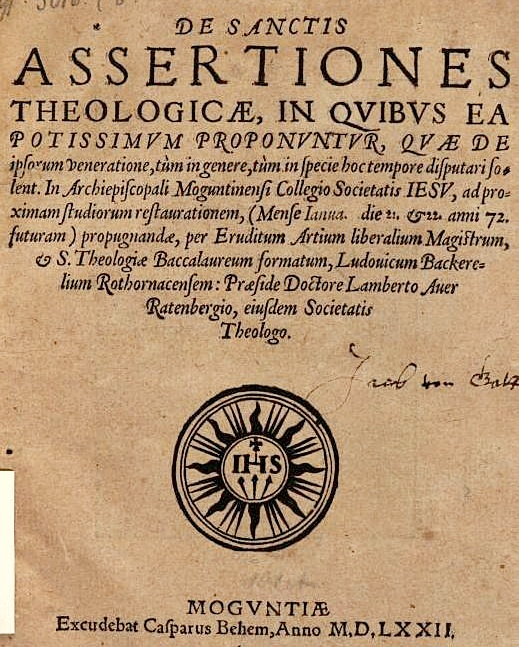 Buchtitelblatt Jesuitenkolleg Mainz, mit Erwähnung des Rektors Pater Lambert Auer, 1572